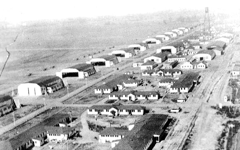 A 1918 aerial view looking northwest along the amazing number of hangars (16 of them) at Taylor Field (courtesy of the Air University Office of History, via Billy Singleton).